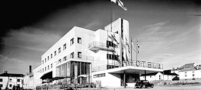 Hotel Pohjanhovi before 1944